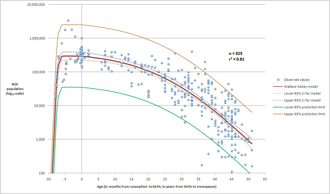 The model of establishment and decline of human primordial follicle population from conception to the menopause that has the best fit to data from 325 ovaries of varying ages.